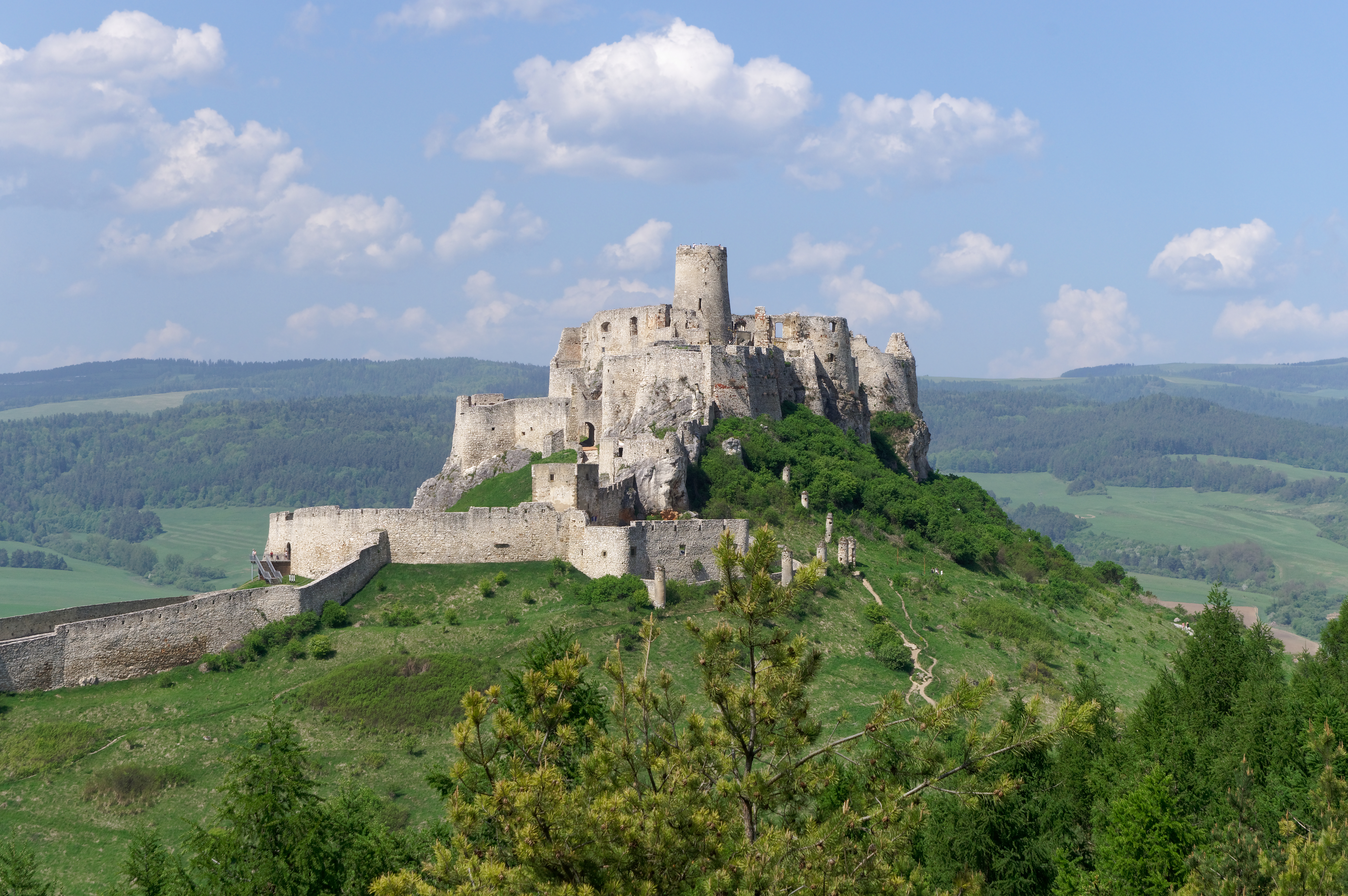 Spiš Castle